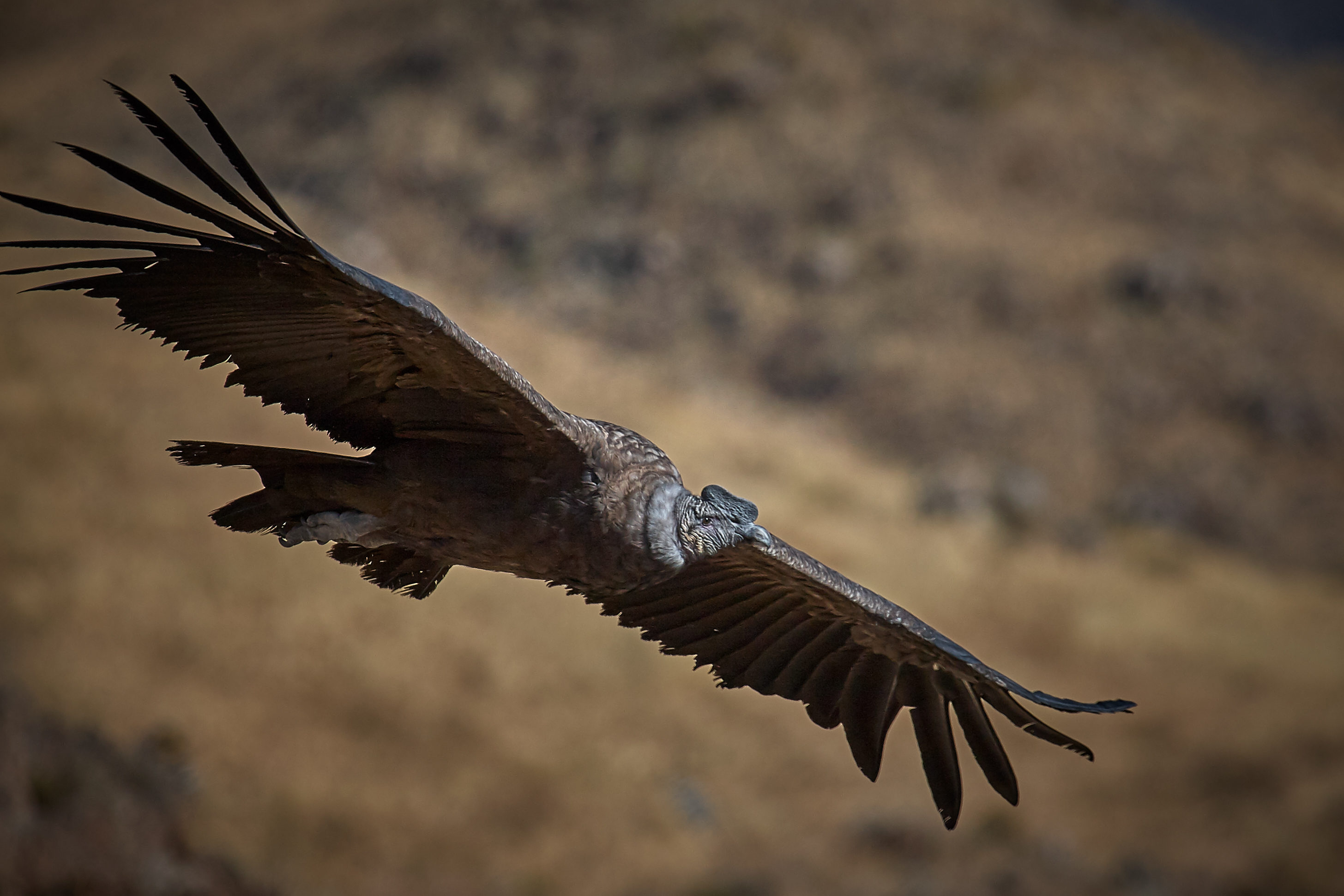 Image of Andean Condor taken in Arequipa, Peru